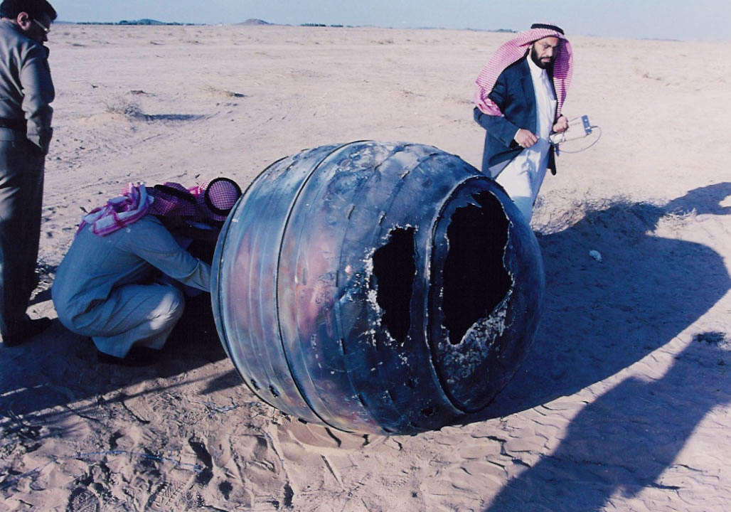 On 21 January 2001, a Delta 2 third stage, known as a PAM-D (Payload Assist Module - Delta), reentered the atmosphere over the Middle East. The titanium motor casing of the PAM-D, weighing about 70 kg, landed in Saudi Arabia about 240 km from the capital of Riyadh.